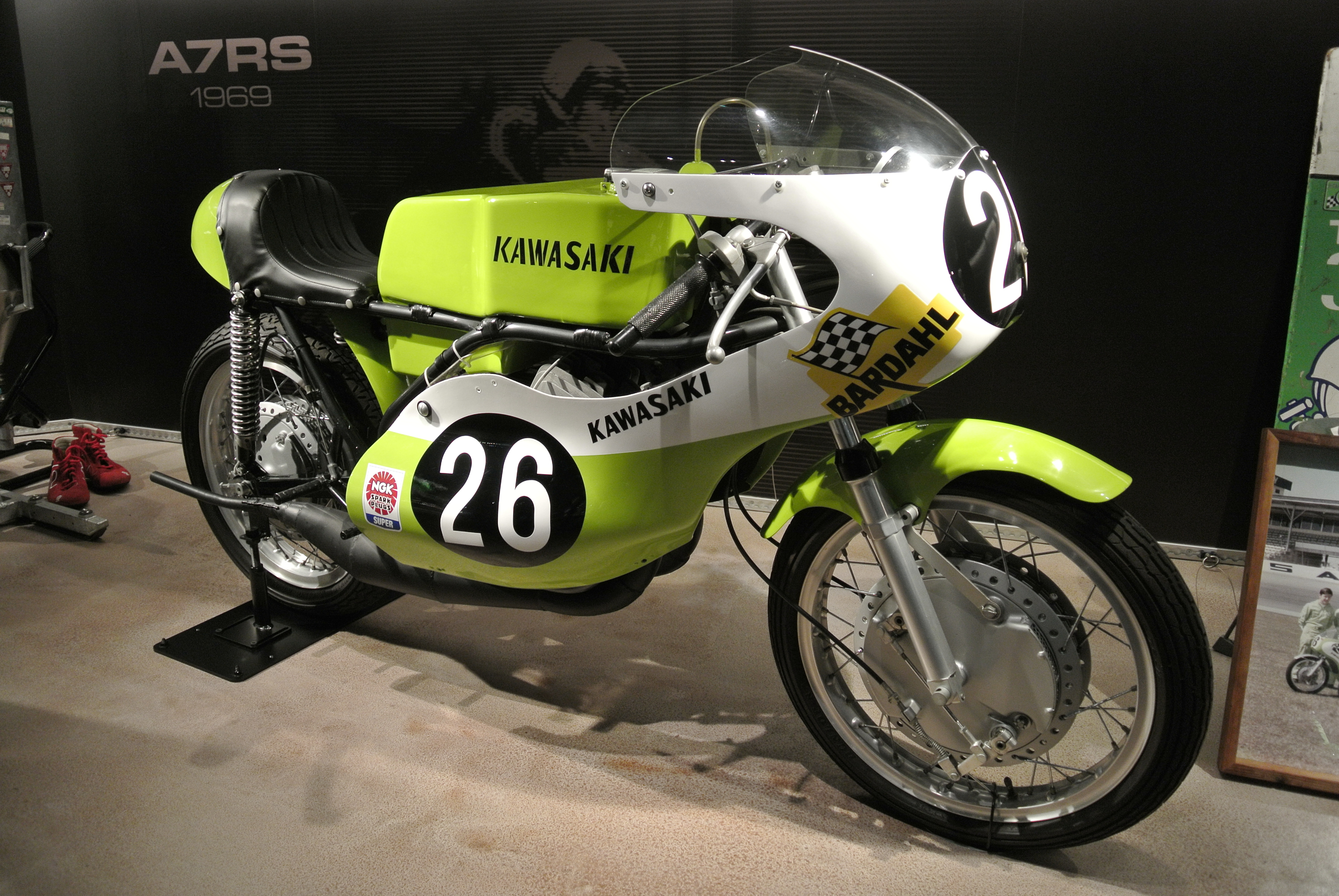 1969 Kawasaki A7RS in the Kawasaki Good Times World.